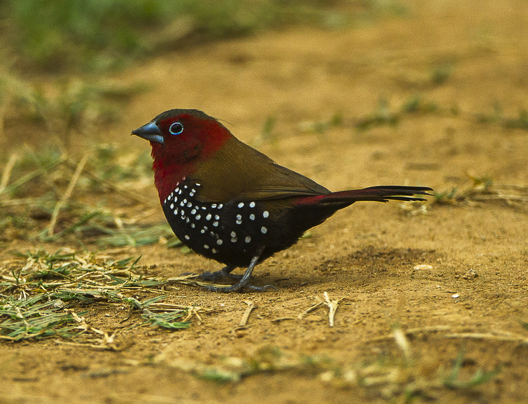 Peter's Twinspot - Malawi_S4E4672